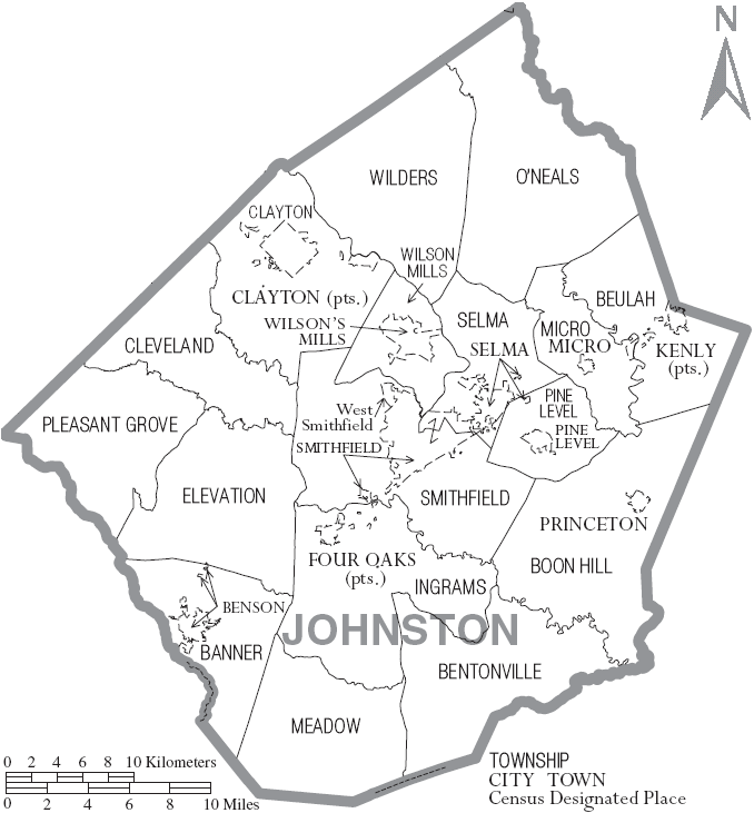 Map of Johnston County, North Carolina, United States with township and municipal boundaries